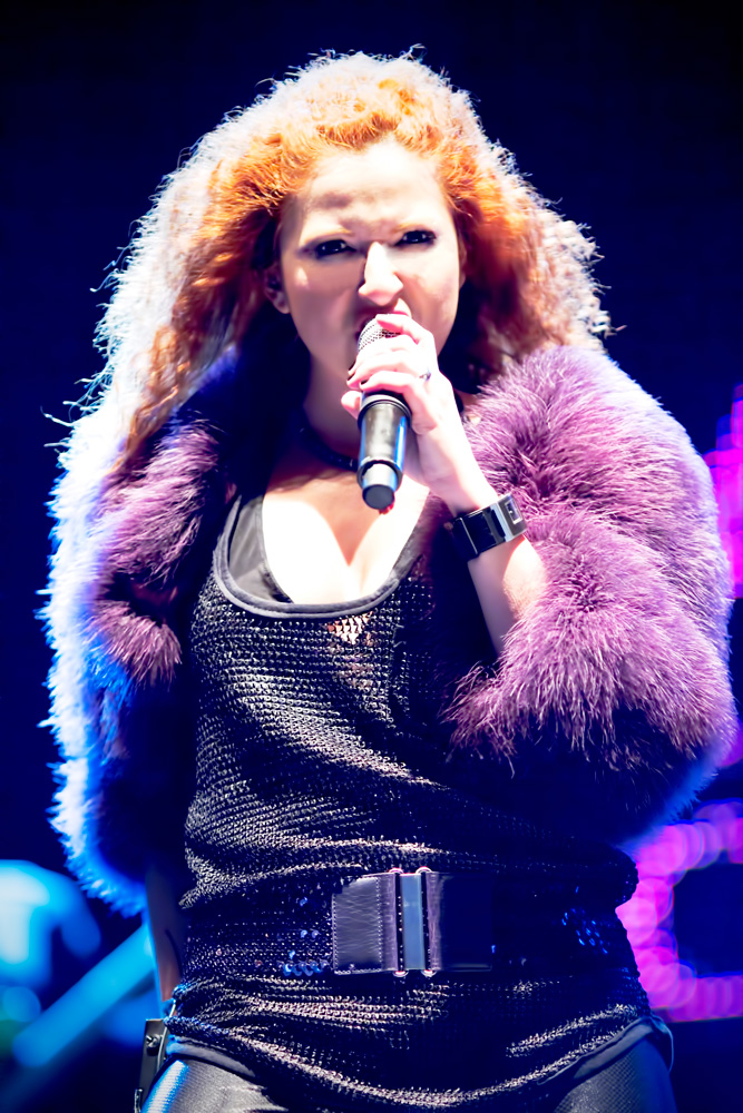 Aslı Gökyokuş, Konya 2011